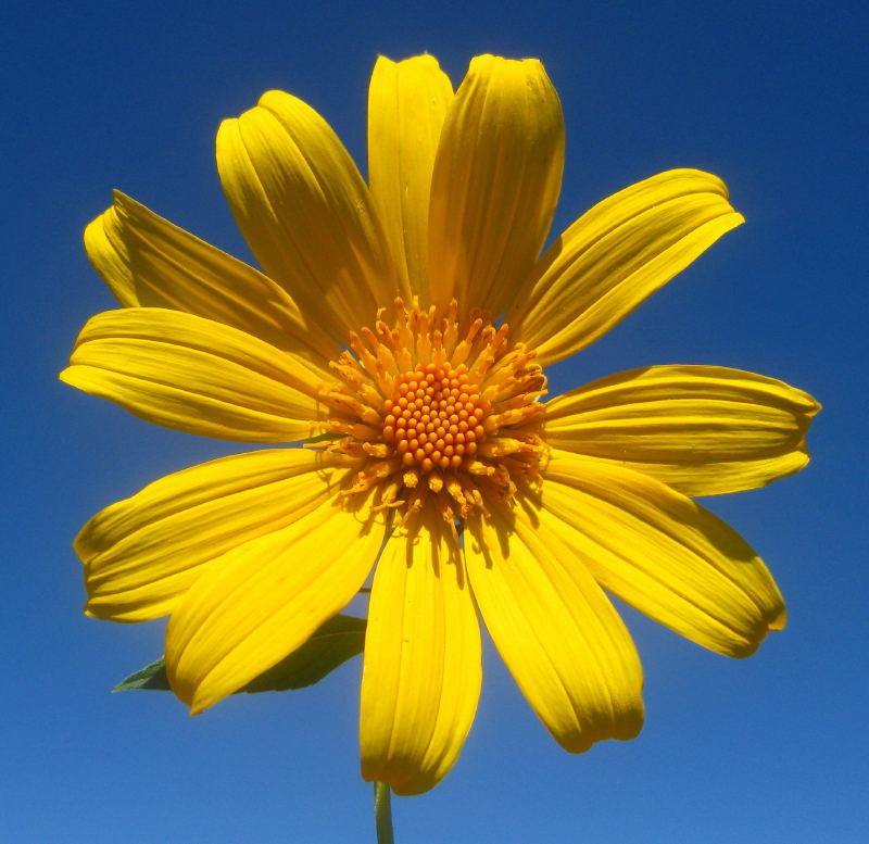 Tithonia diversifolia is a native of South America and introduced in many parts of Africa where it is considered a weed.